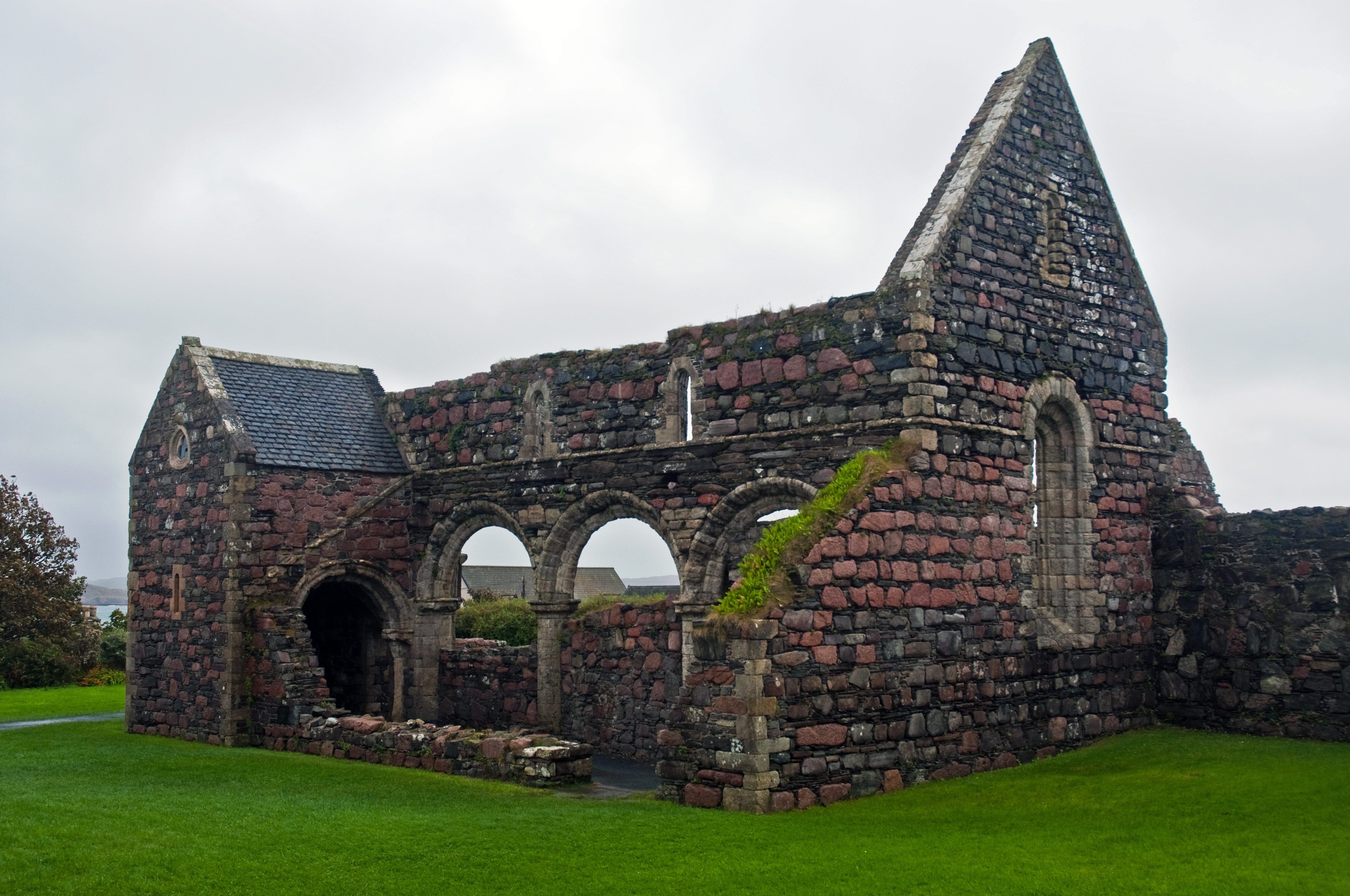 Nunnery, Iona, Scotland, September 2010